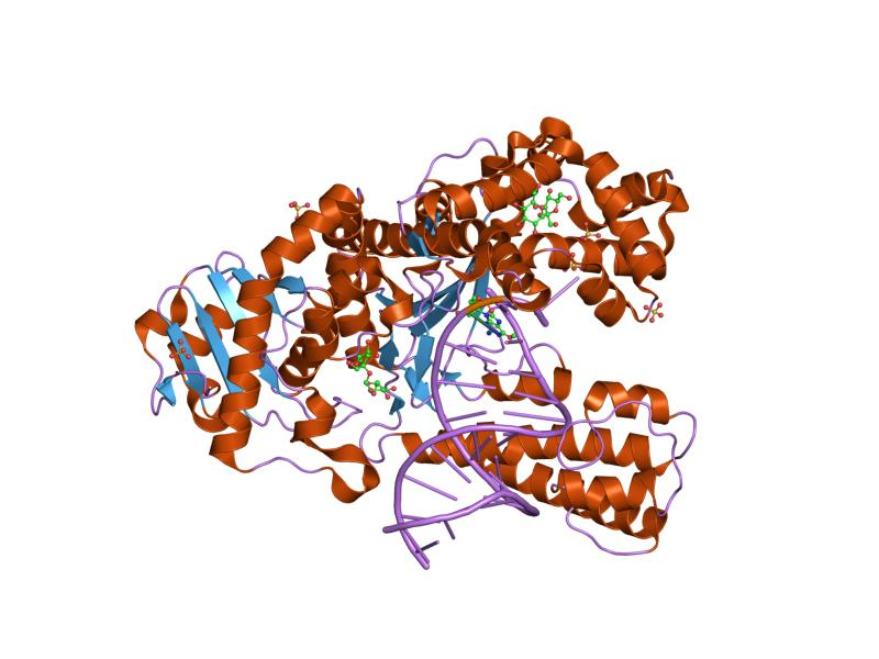 Cartoon representation of the molecular structure of protein registered with 2hht code.